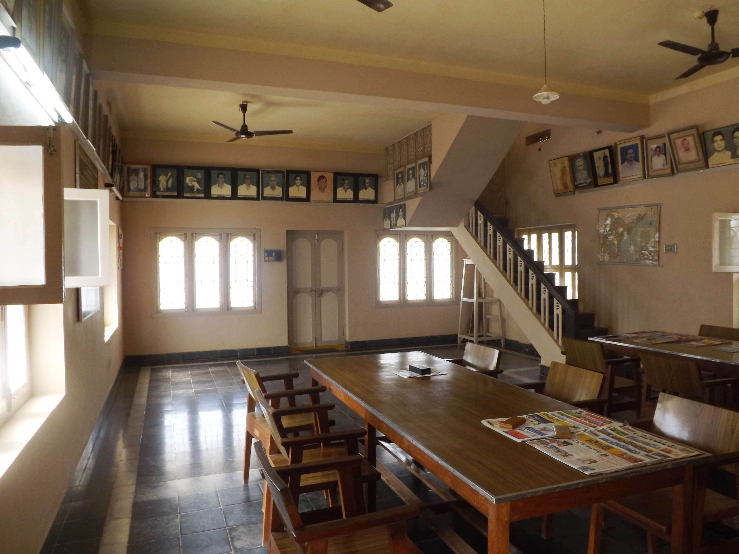 Sri Veeresalinga Kavi Samaja Library of Kumudavalli, Andhrapradesh